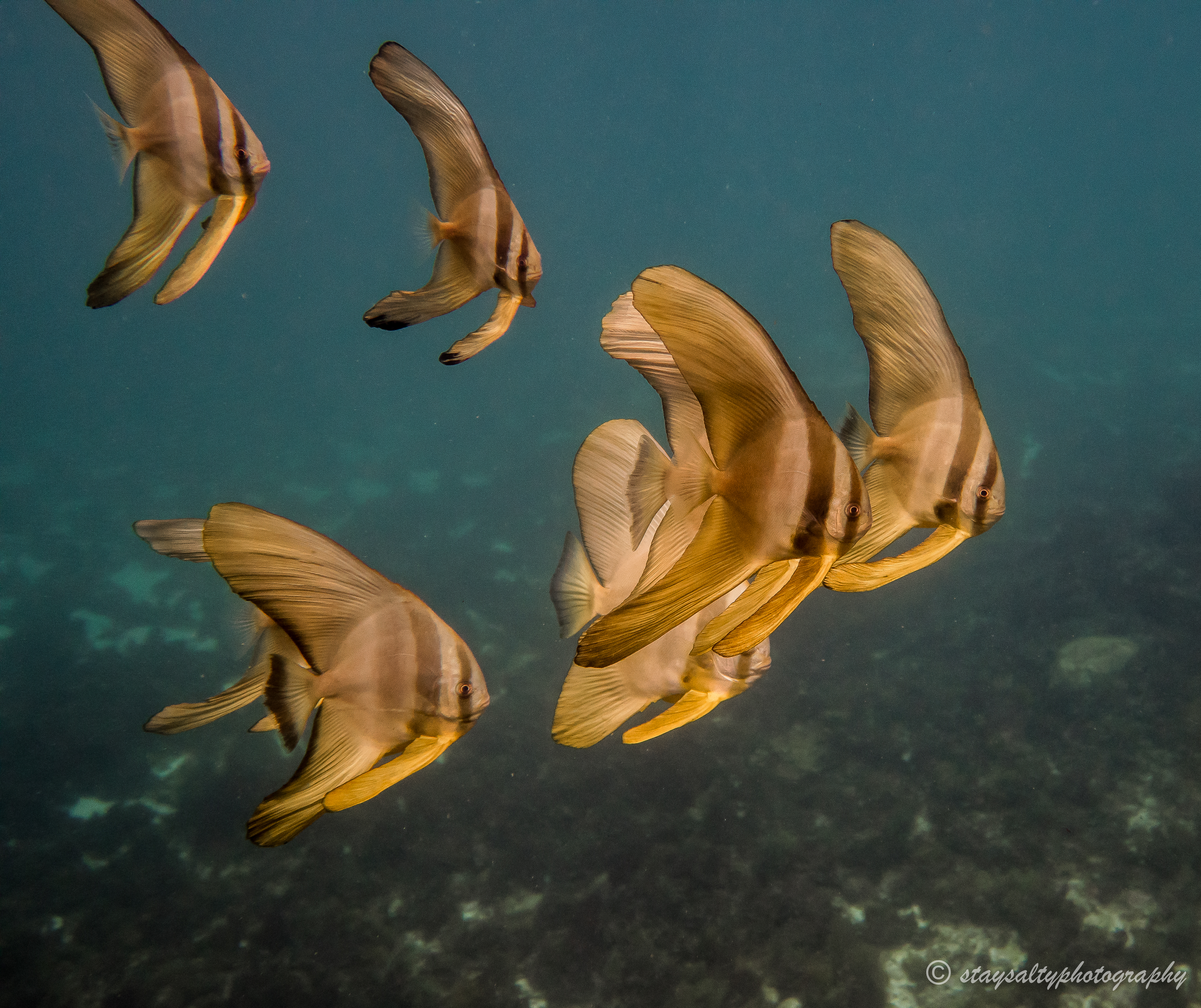 Long-fin Batfish (Platax teira) in transitional stage between juvenile and adult.